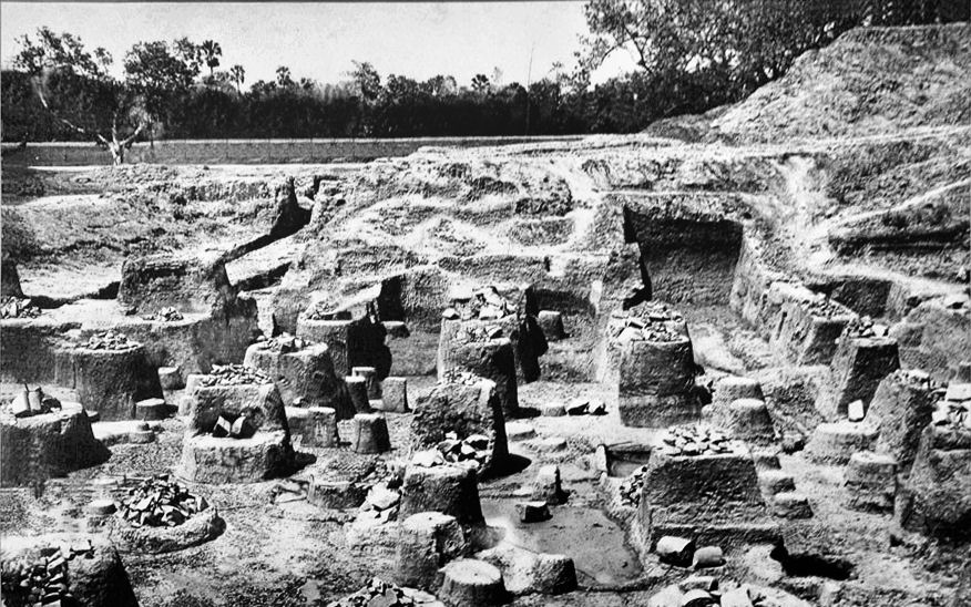 Mauryan ruins of pillared hall at Kumrahar site of Pataliputra ASIEC 1912-13